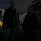 Plaza Magazine